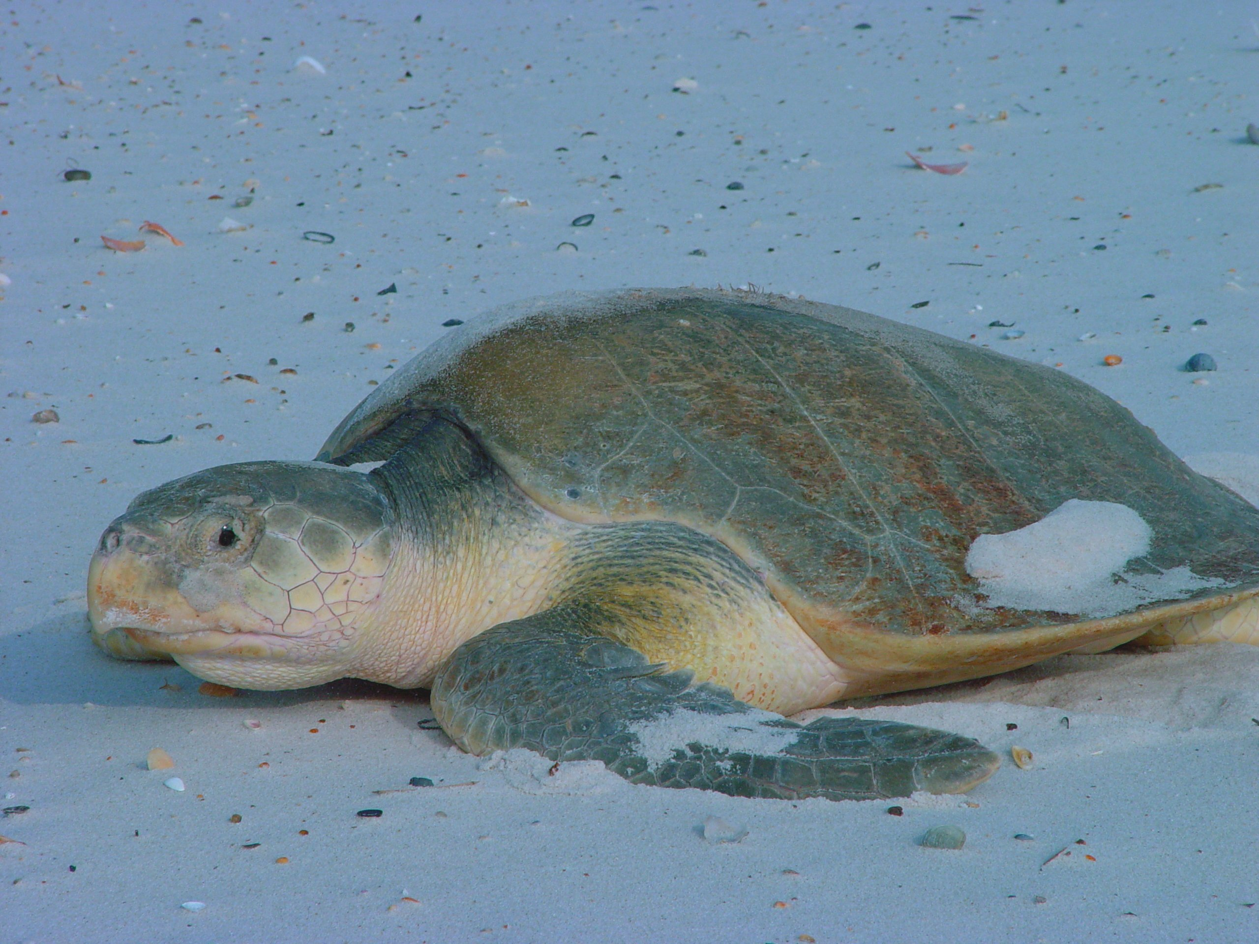 PLepidochelys kempii on beach